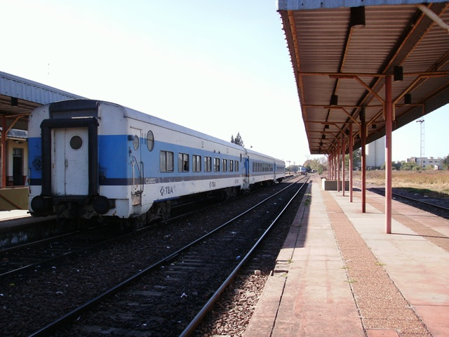 Mercedes train station, Buenos Aires Province, Argentina.